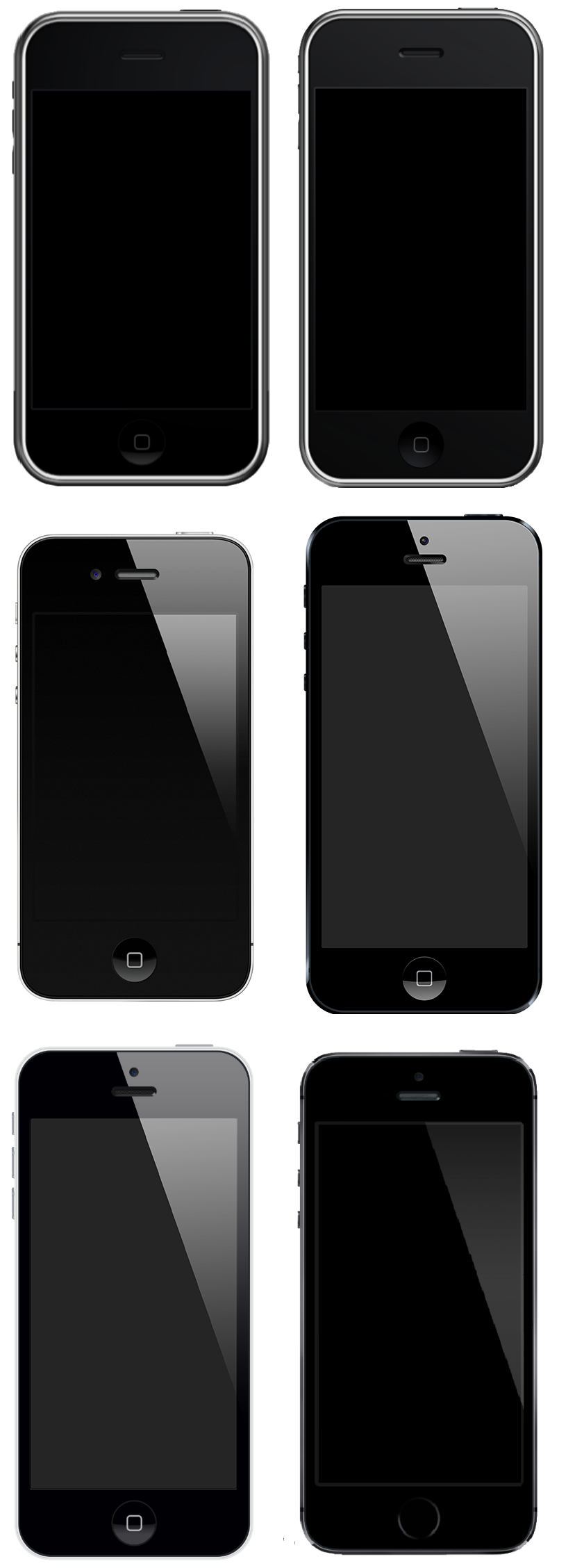 Four iPhone models, the 2G, 3G, 4, 5, 5c and 5s to scale based on actual device dimensions.